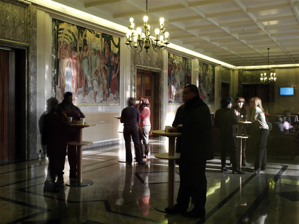 Salle des Pas-Perdus of the Centre William Rappard, ground floor cafeteria, with the Jaulmes murals in the background. The murals are “Dans la joie universelle” (Universal Joy), “Le travail dans l’abondance” (Work in Abundance) and “Le Bienfait des Loisirs” (The Benefits of Leisure). The Swiss-French artist Gustave-Louis Jaulmes (1873-1959) completed them in 1940. Photo by Pierre-Yves Dhinaut, 2007.